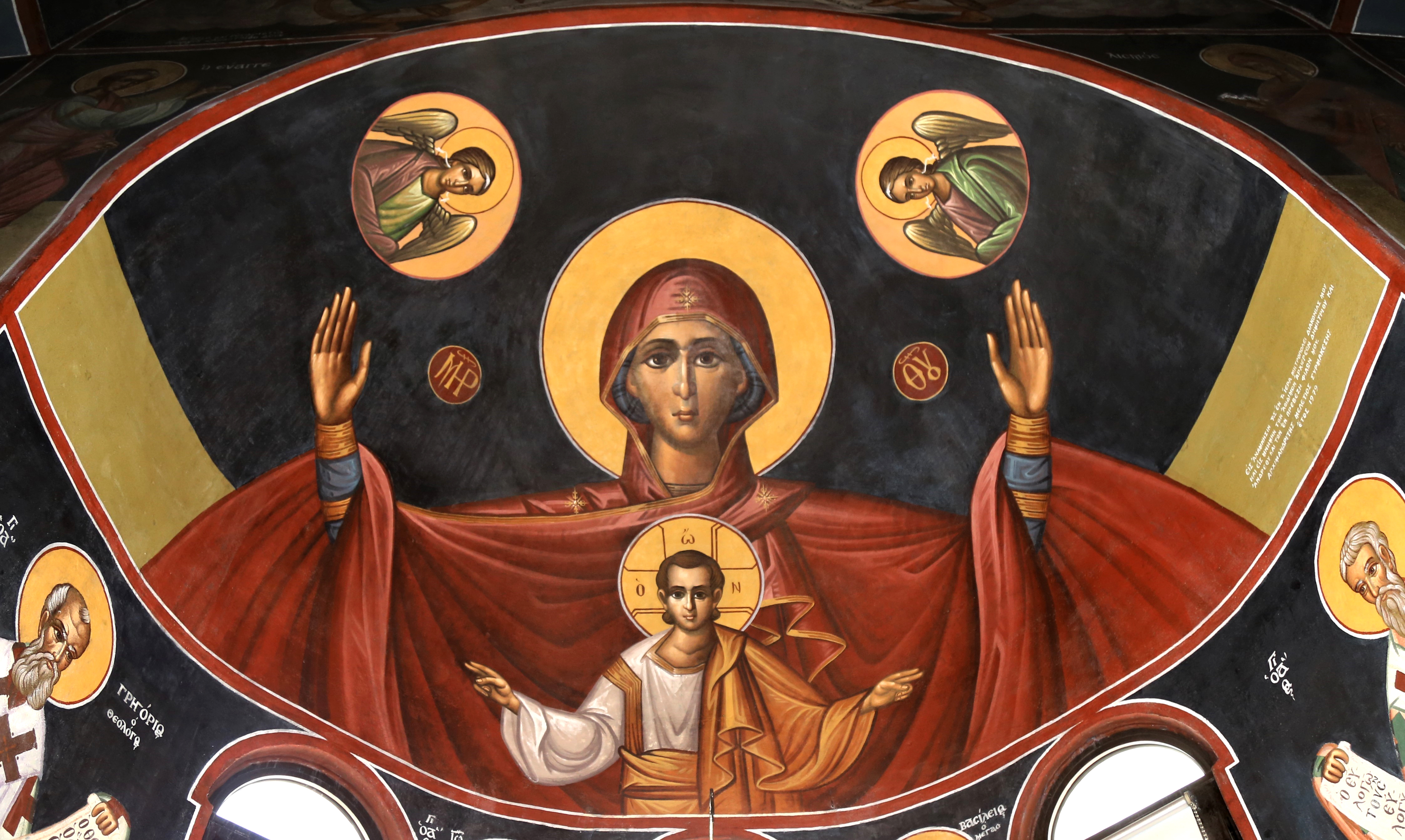 The niche of St. St. John the Chysostom church, Preveza, northwestern Greece, after its restoration, in June 2018.